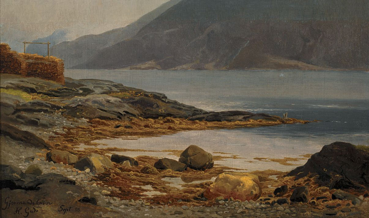 Painting from 1850 in romantic style by the Norwegian artist Hans Gude: "Gjermundshavn" from Kvinherad municpality, Hardanger district, Hordaland county, Norway.